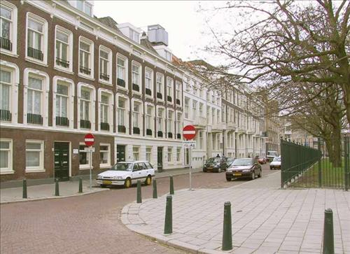 Street: Oranjeplein City: The Hague Country: The Netherlands